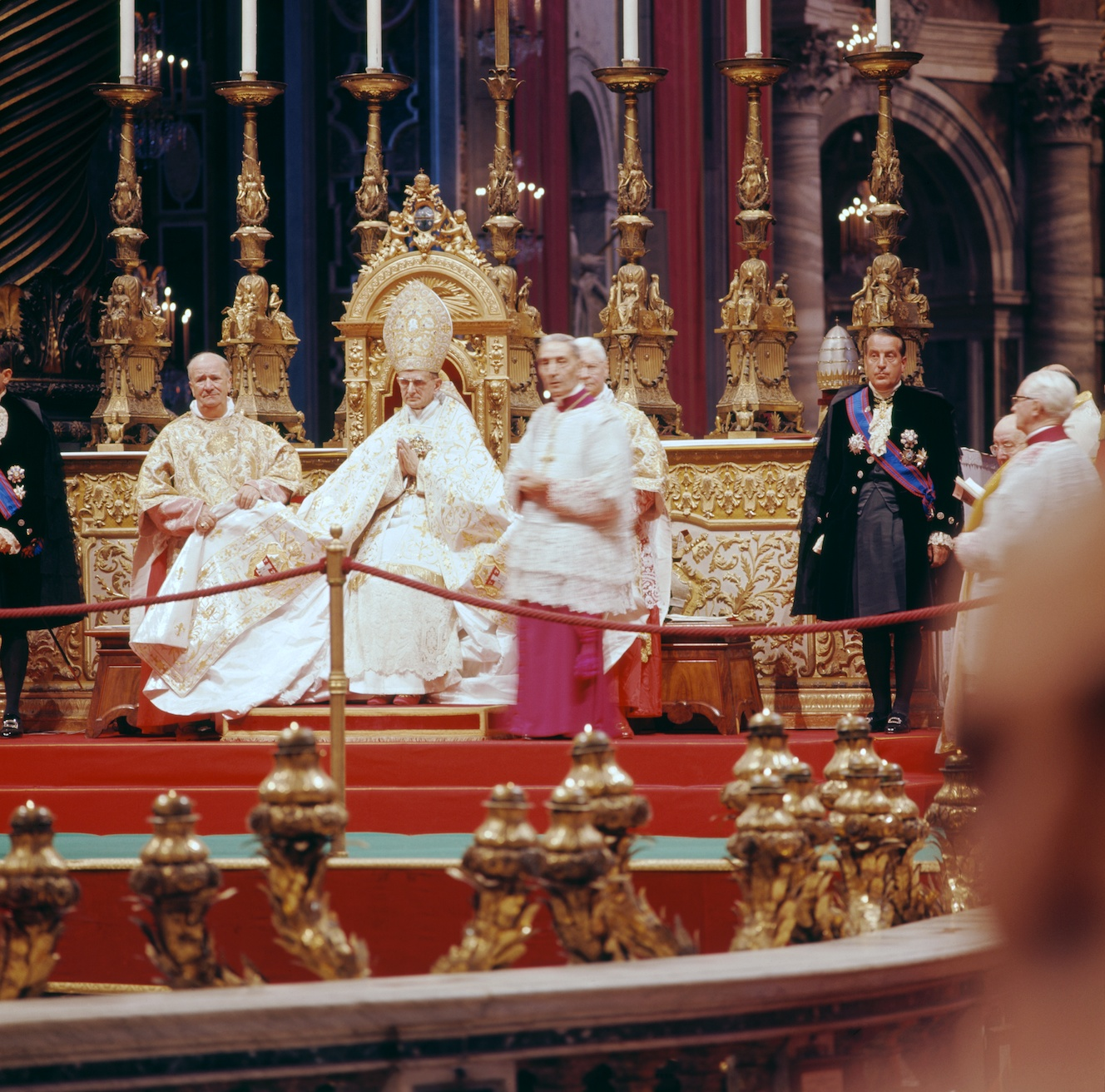 Pope Paul VI and Enrico Dante during Second Vatican Council